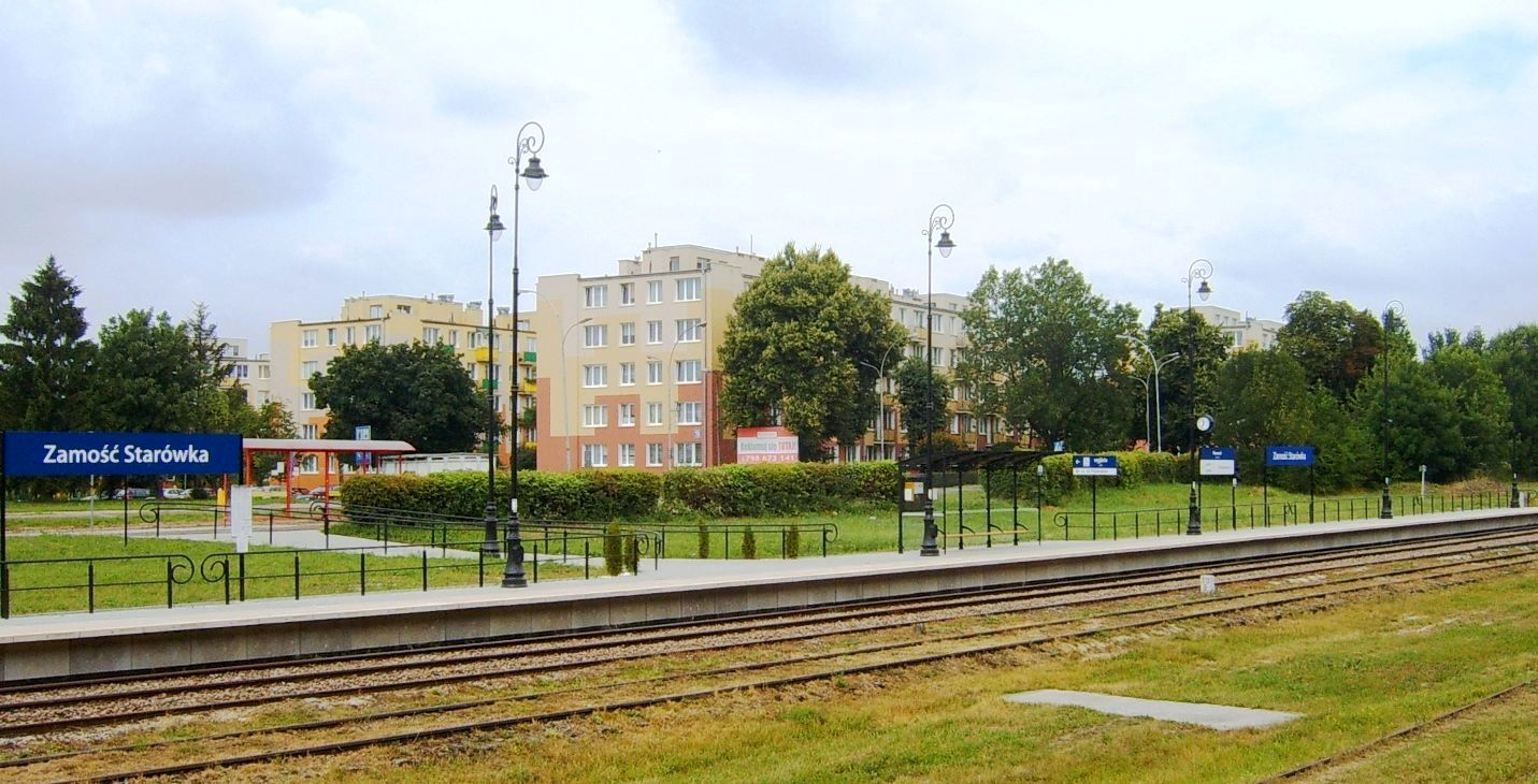 Train station (halt) Zamość Starówka in Zamość